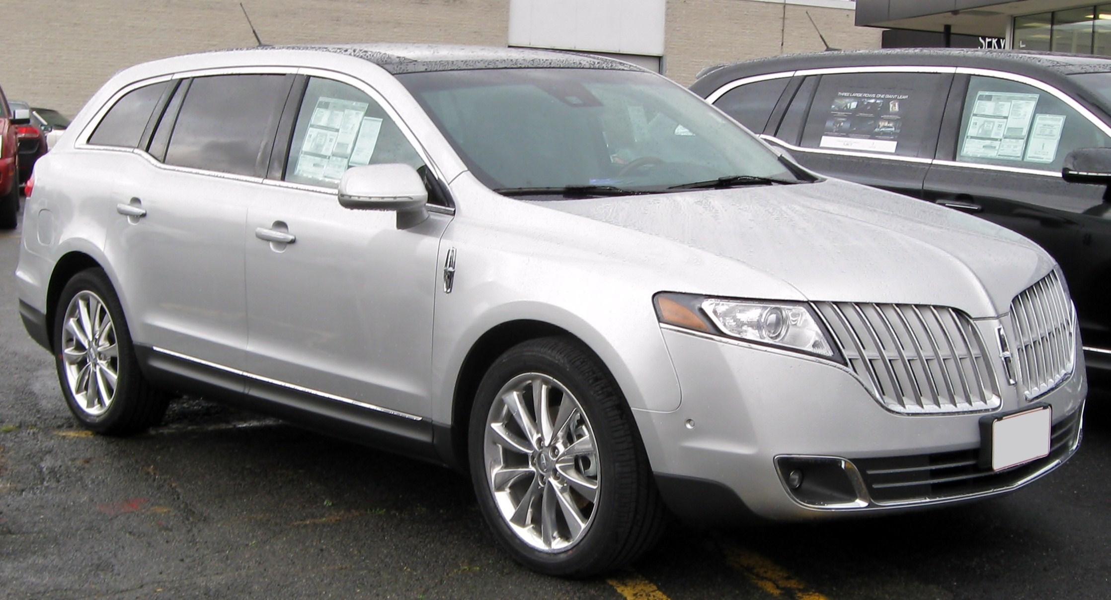 2010 Lincoln MKT photographed in Marlow Heights, Maryland, USA.